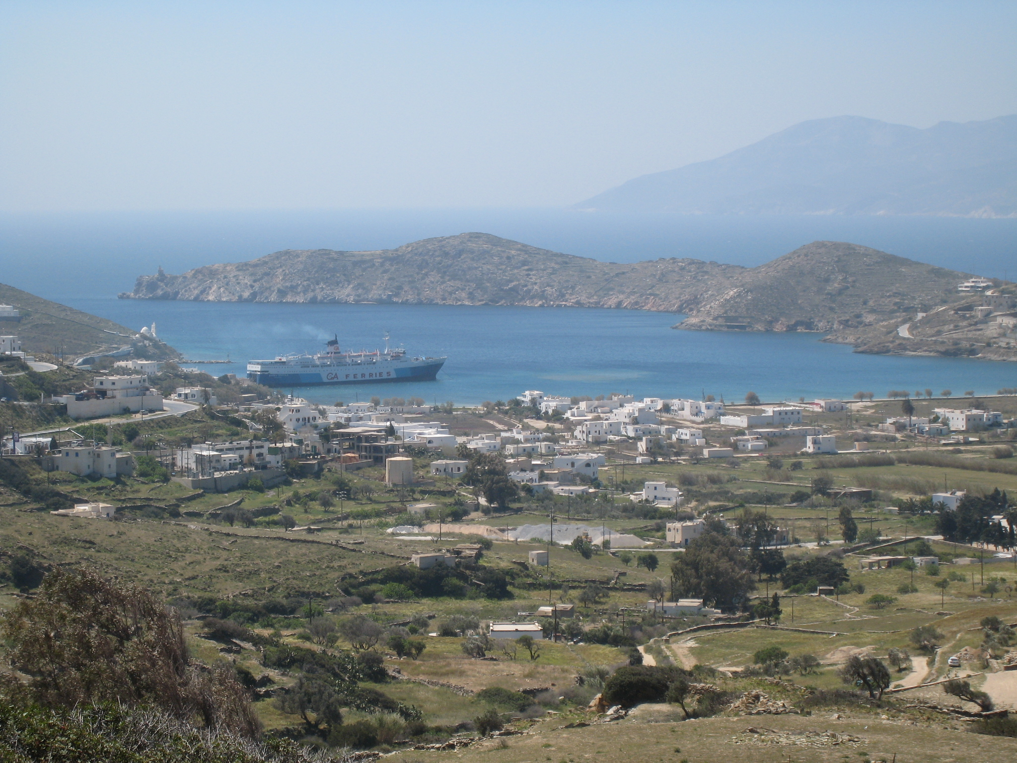 Ios island, Cyclades, Greece port 2007.